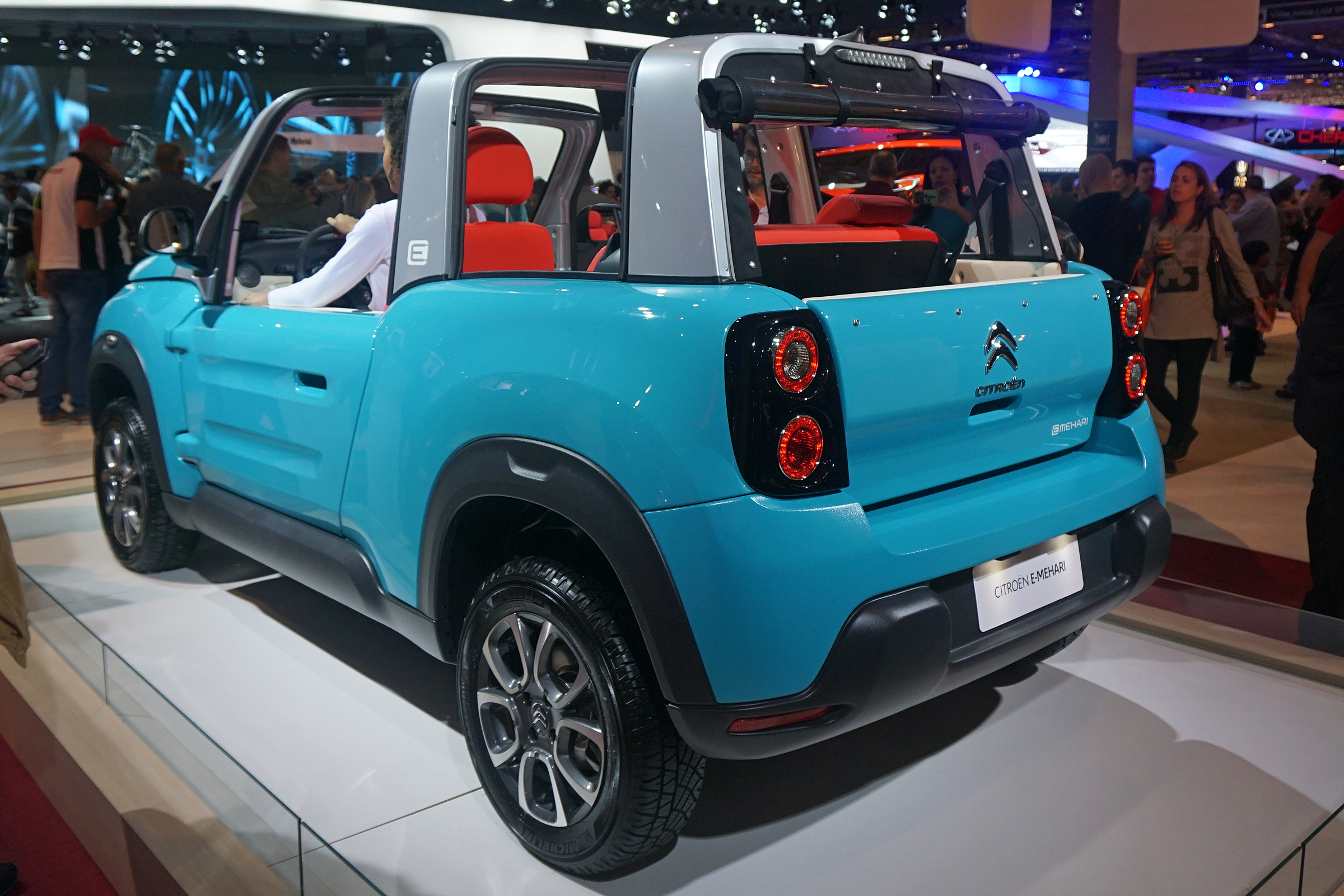 Citroën E-Mehari all-electric car exhibited at the Salão Internacional do Automóvel 2016 São Paulo, Brazil.